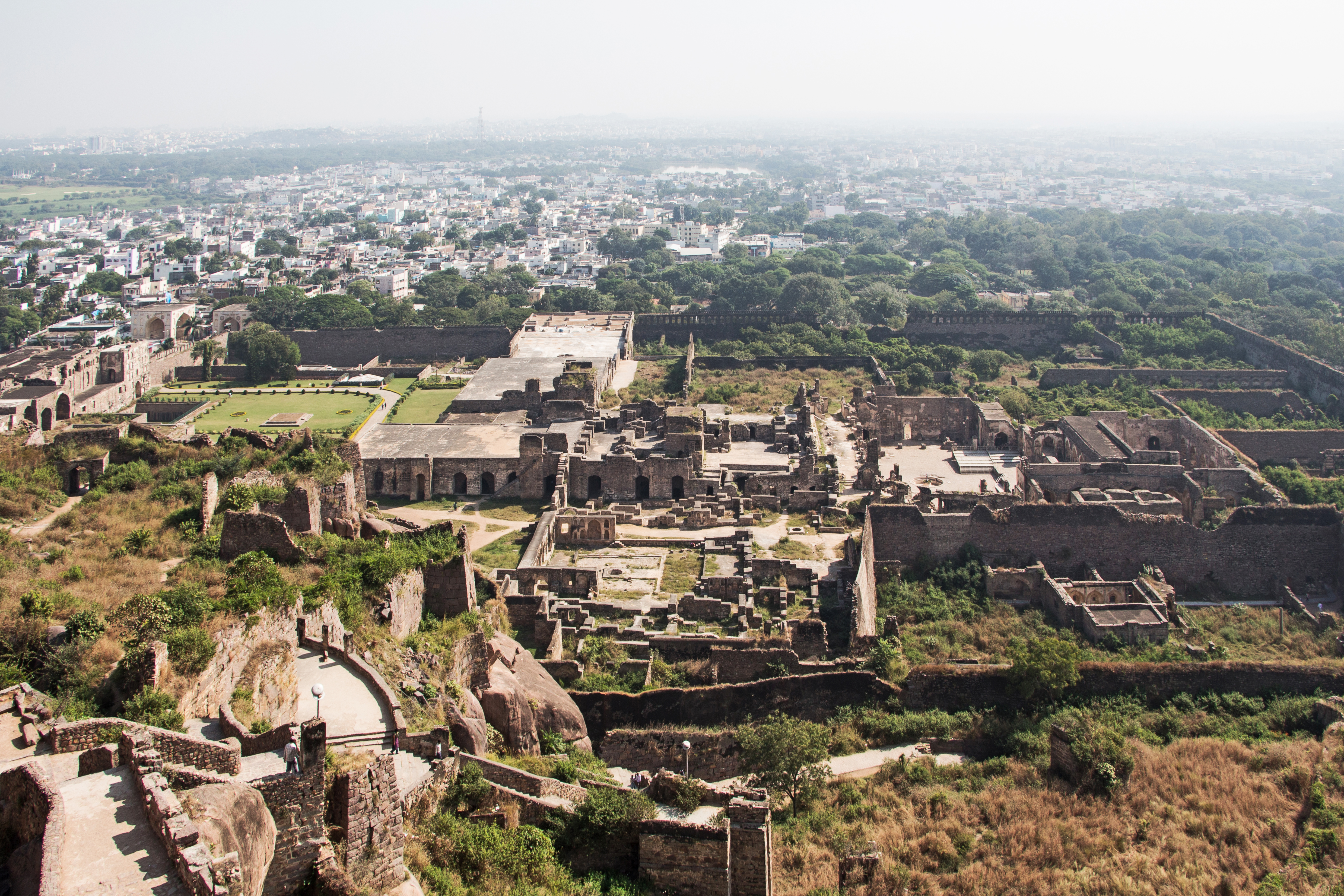 View from the Baradari, Golconda Fort, India